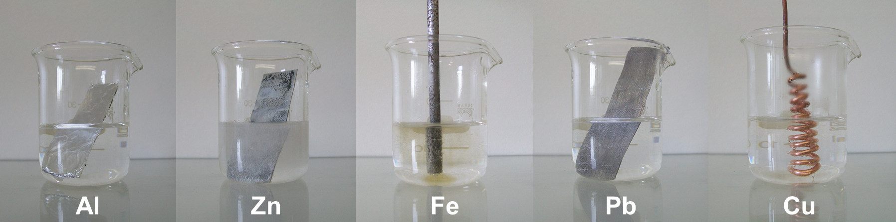 Reactivity series of some metals in dilute sulfuric acid, arranged according to their standard reduction potential